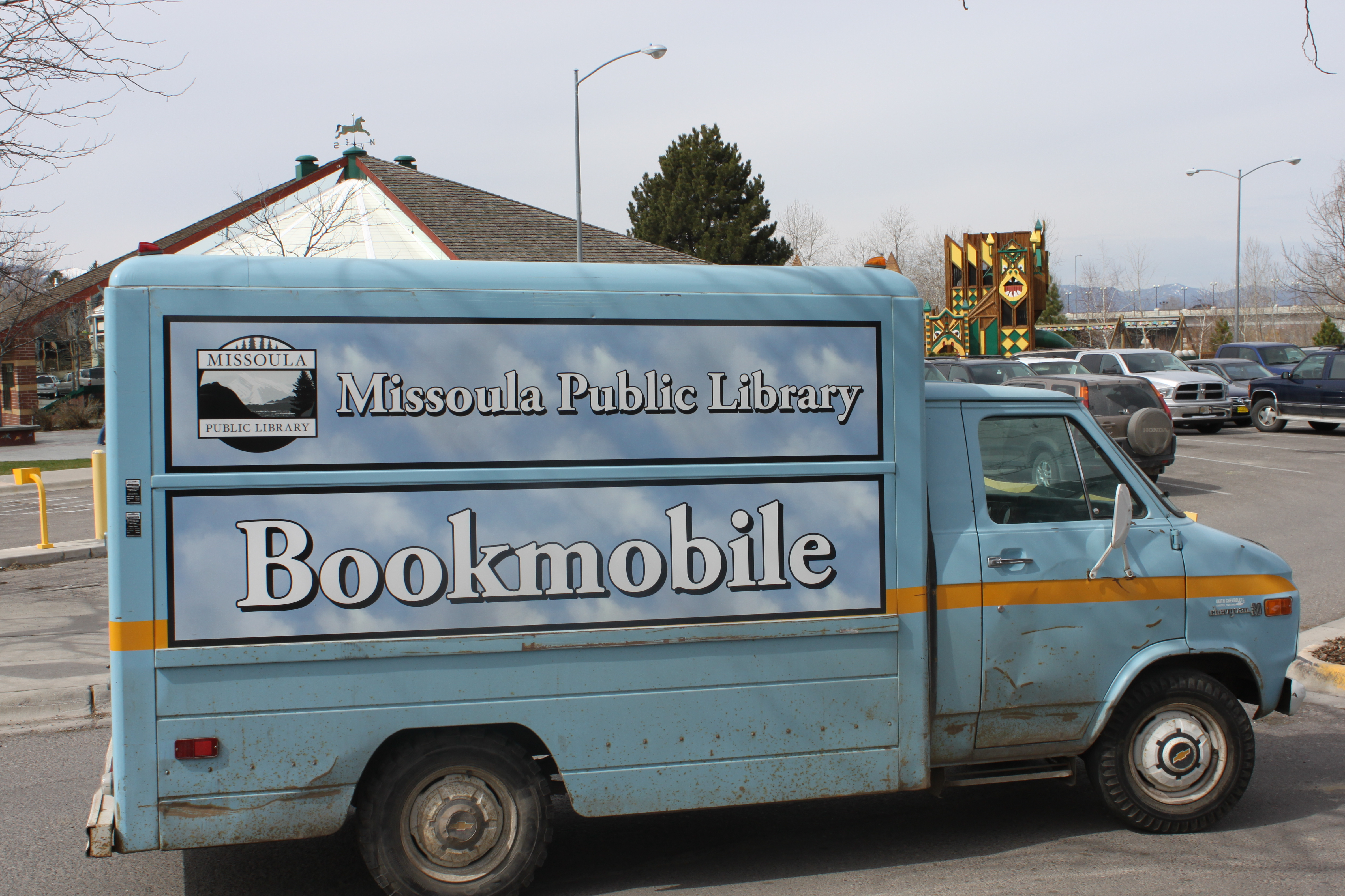 On Wednesday of National Library Week, it was National Bookmobile Day! So we took the Missoula Public Library bookmobile out and about Missoula.